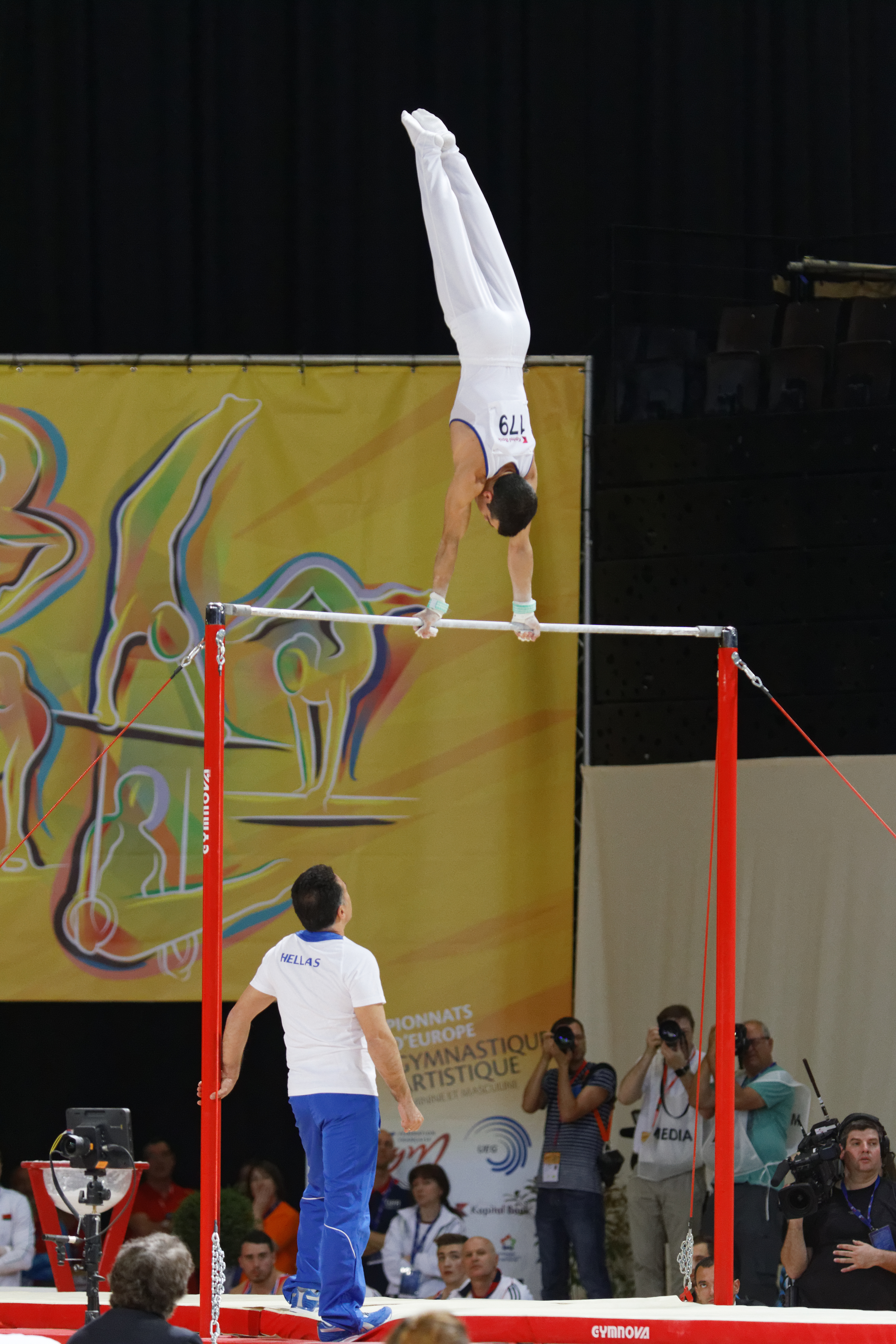 2015 European Artistic Gymnastics Championships.